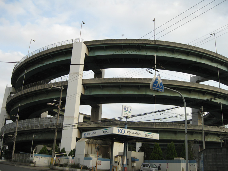 The loop part of Shin Kidu-gawa Ohashi in Osaka city, Taisho-ku and Suminoe-ku.